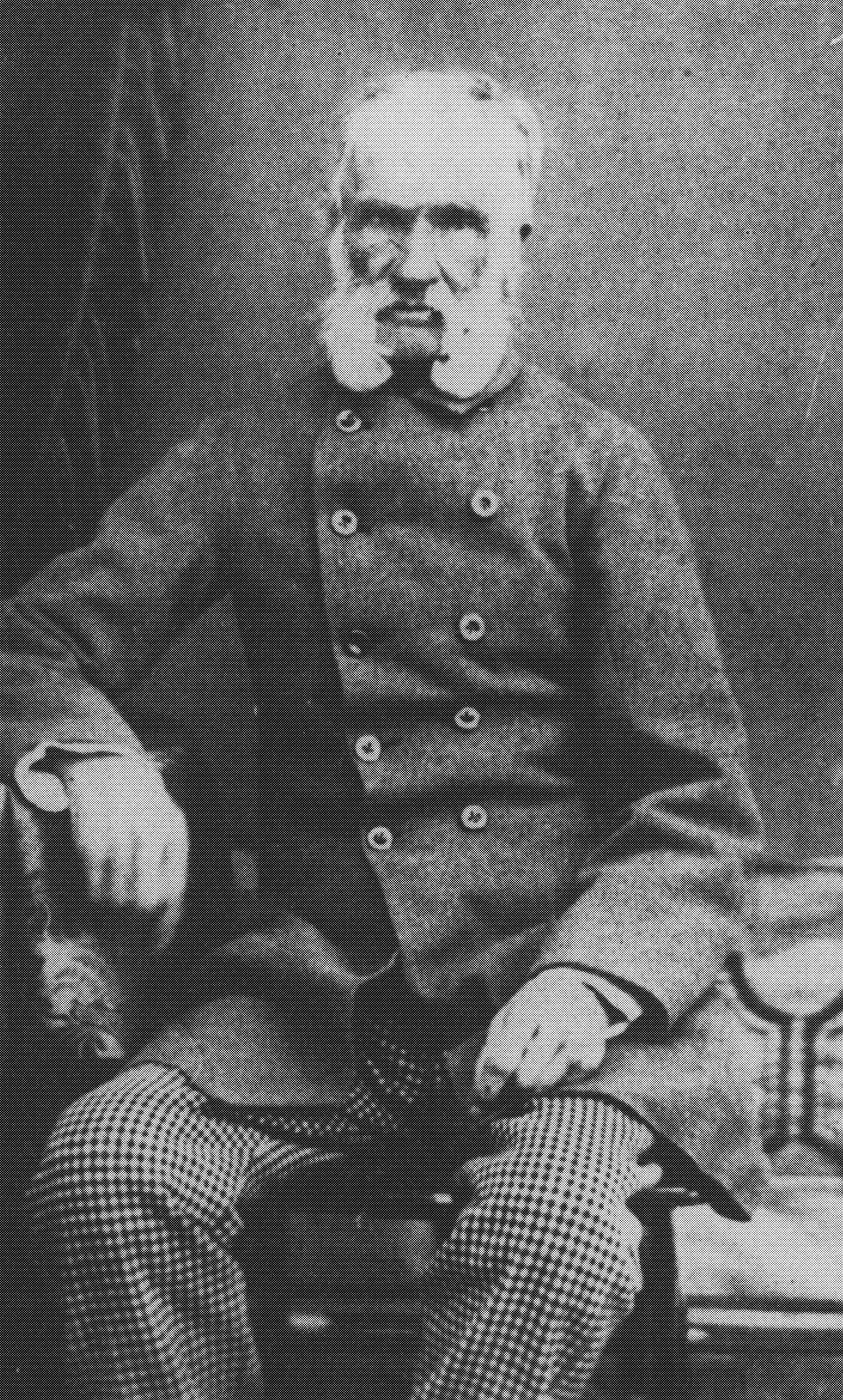 photograph of Francisco Burdett-O'Connor